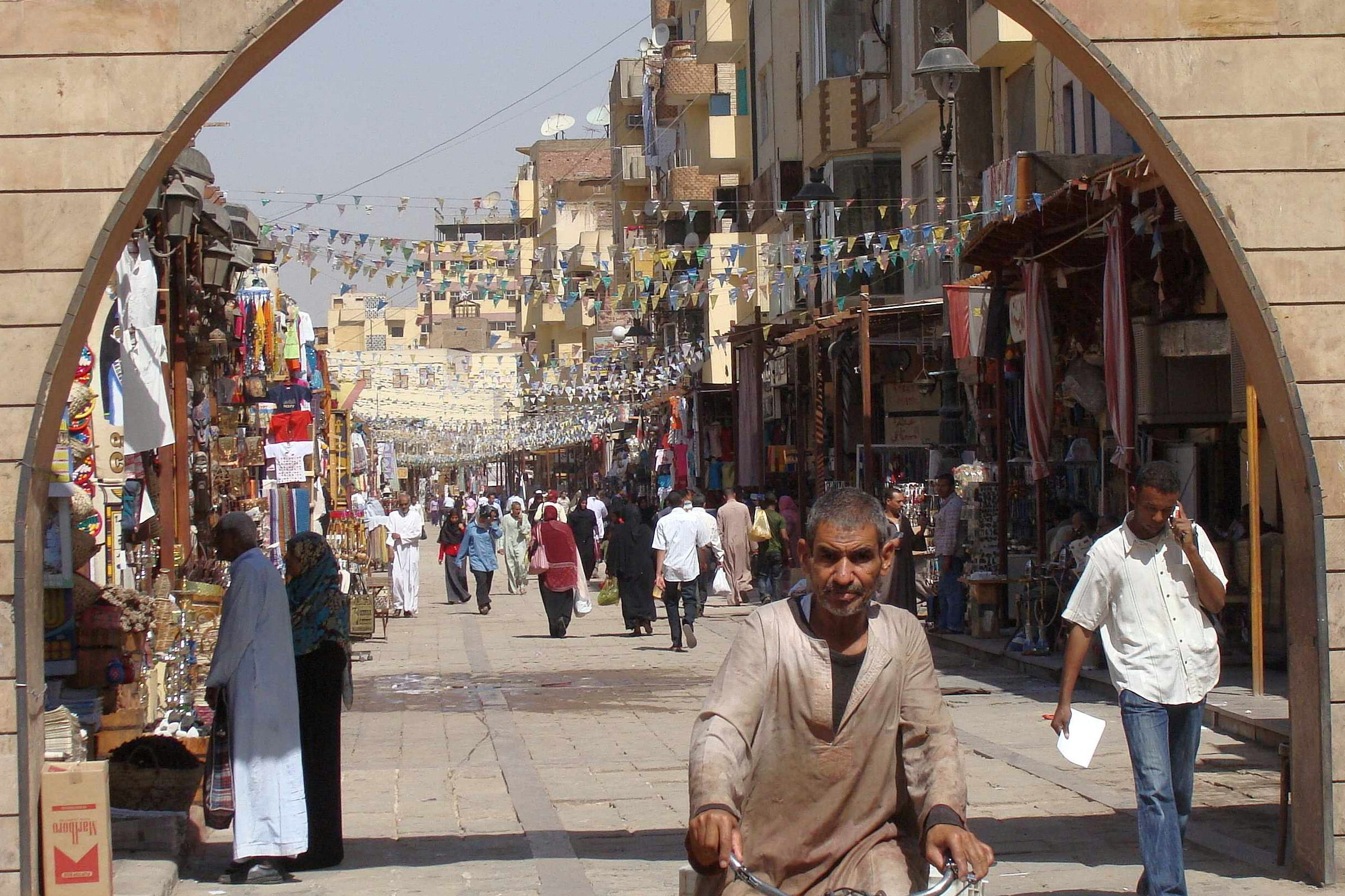 Aswan street